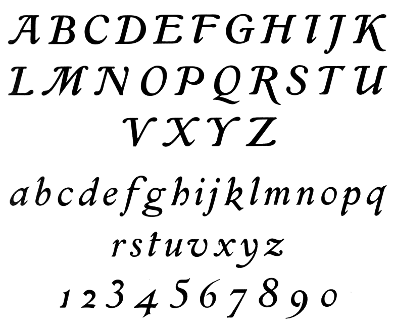 Grasset Italic cropped specimen from Thibaudeau 1924